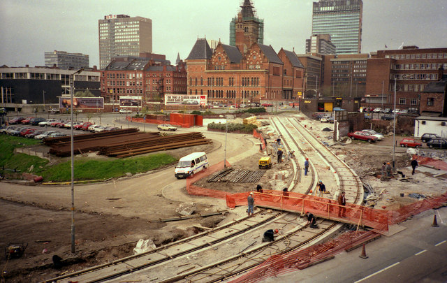 View from Piccadilly Station approach, Manchester